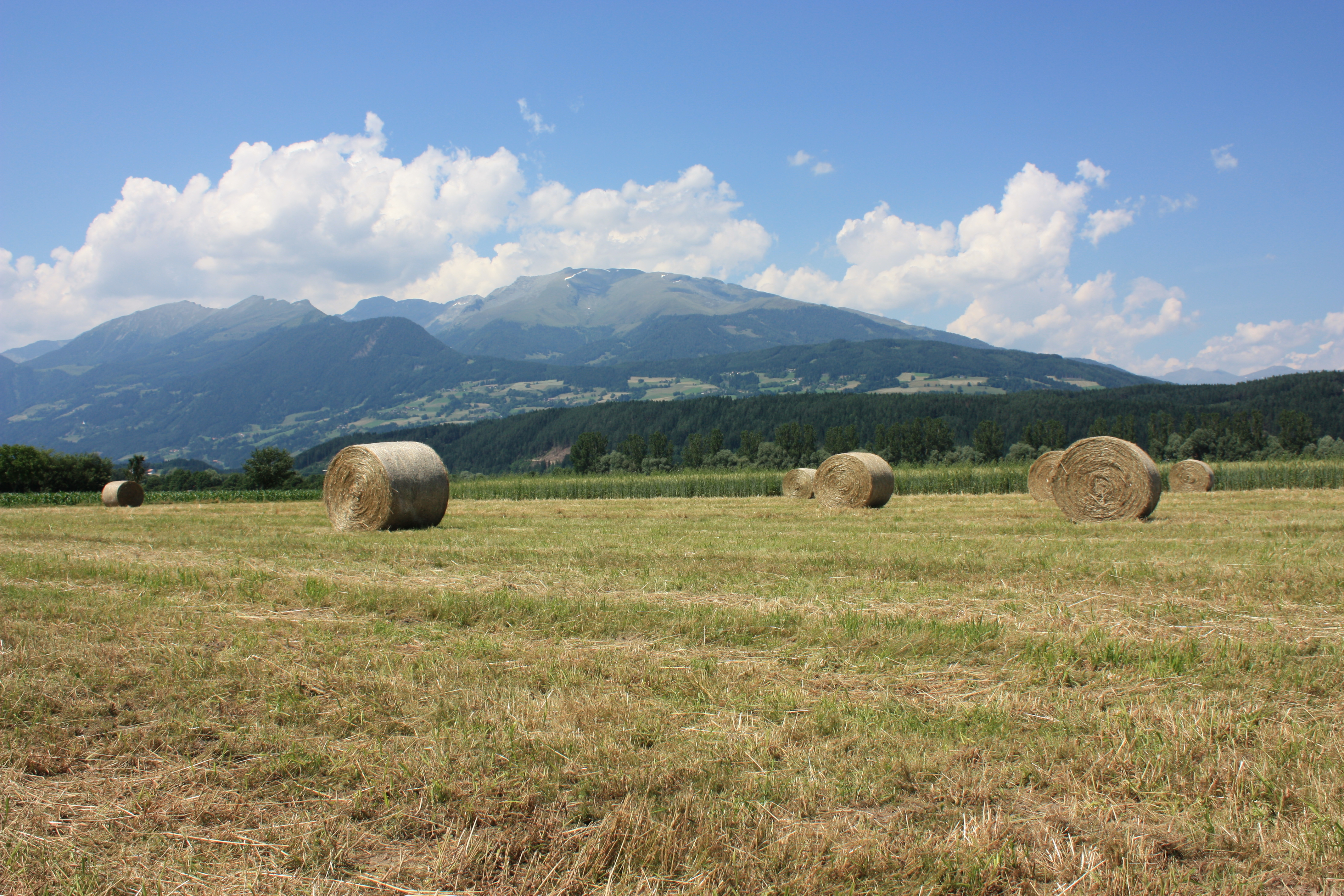 Fields near Spittal an der Drau, Carinthia - View to mountain Gmeineck